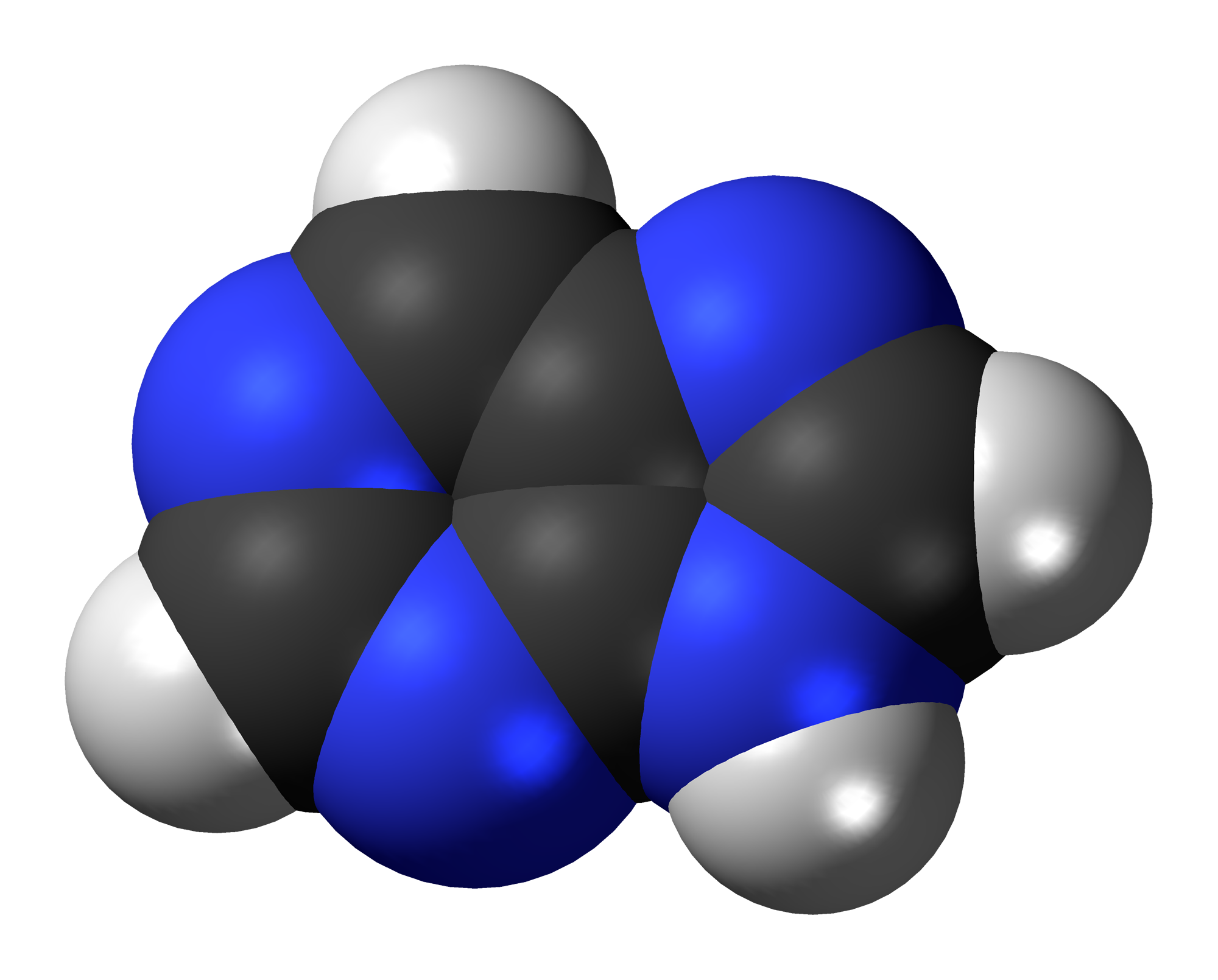 Space-filling model of the purine molecule, a nitrogen heterocycle. Many different purine derivatives occur in nature. Colour code: Carbon, C: black Hydrogen, H: white Nitrogen, N: blue